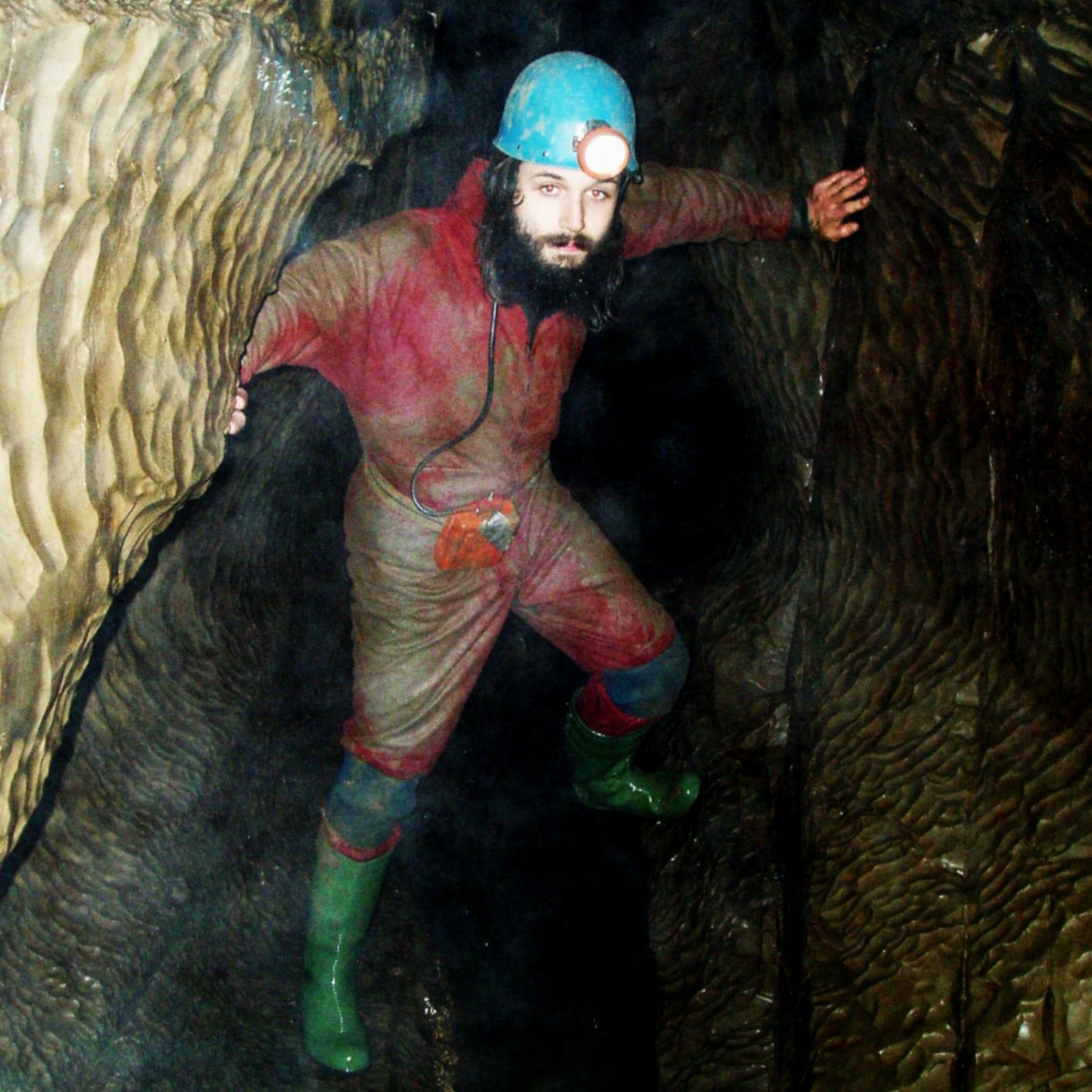 Caving in the United Kingdom